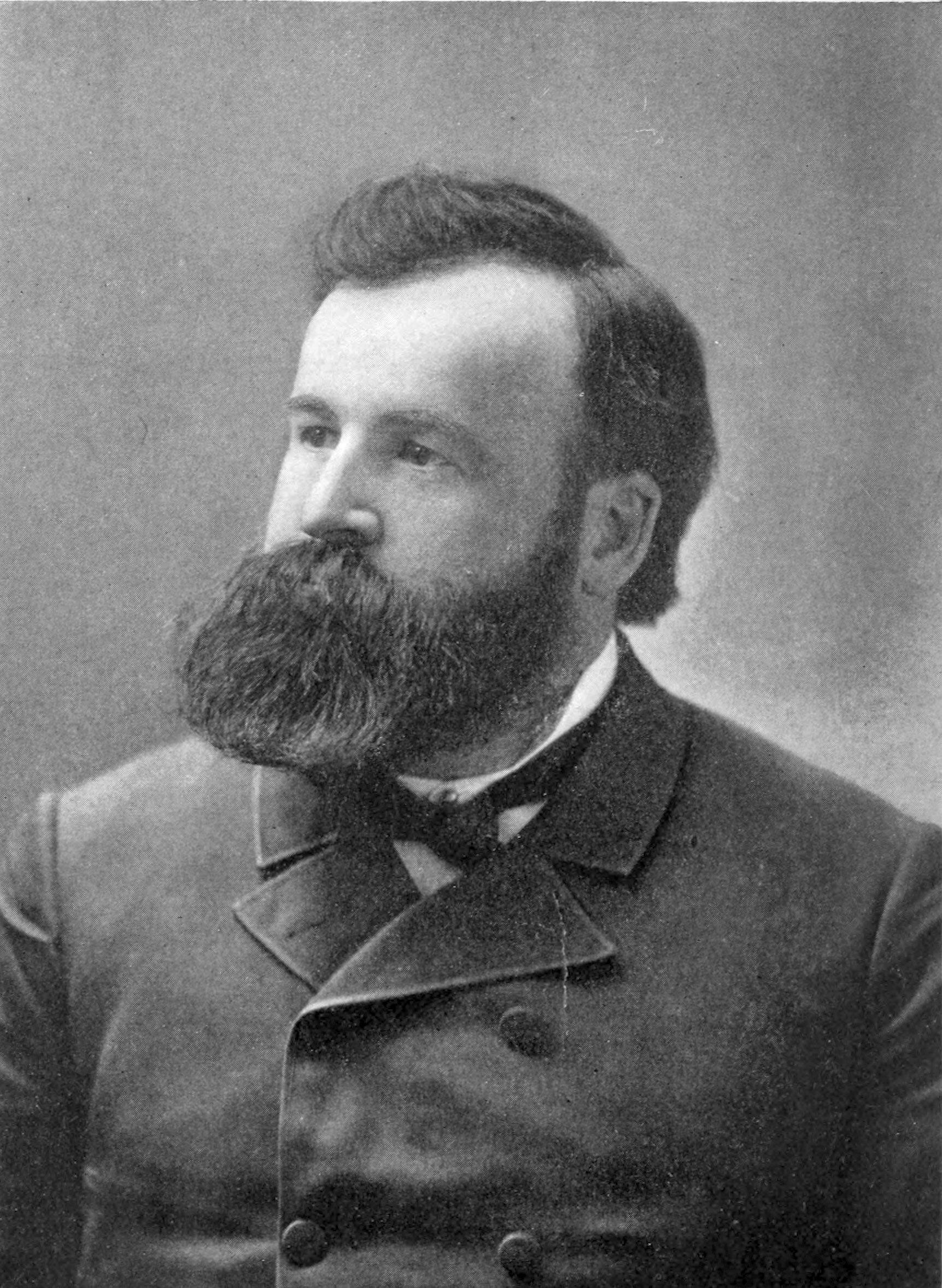 Harvested from the Book "William Hamilton Gibson; artist--naturalist--author" (1901) by John Coleman Adams. This is the frontispiece from the book. The book is in the public domain and scans can be found at